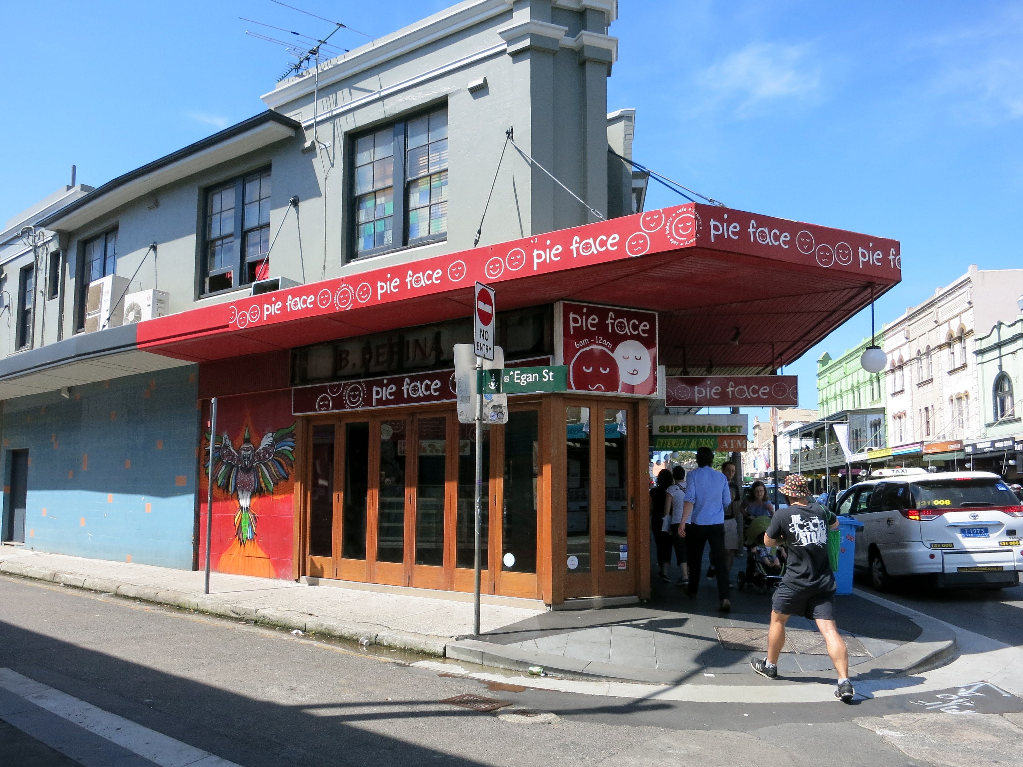 A Closed Pie Face store in Newtown, Sydney